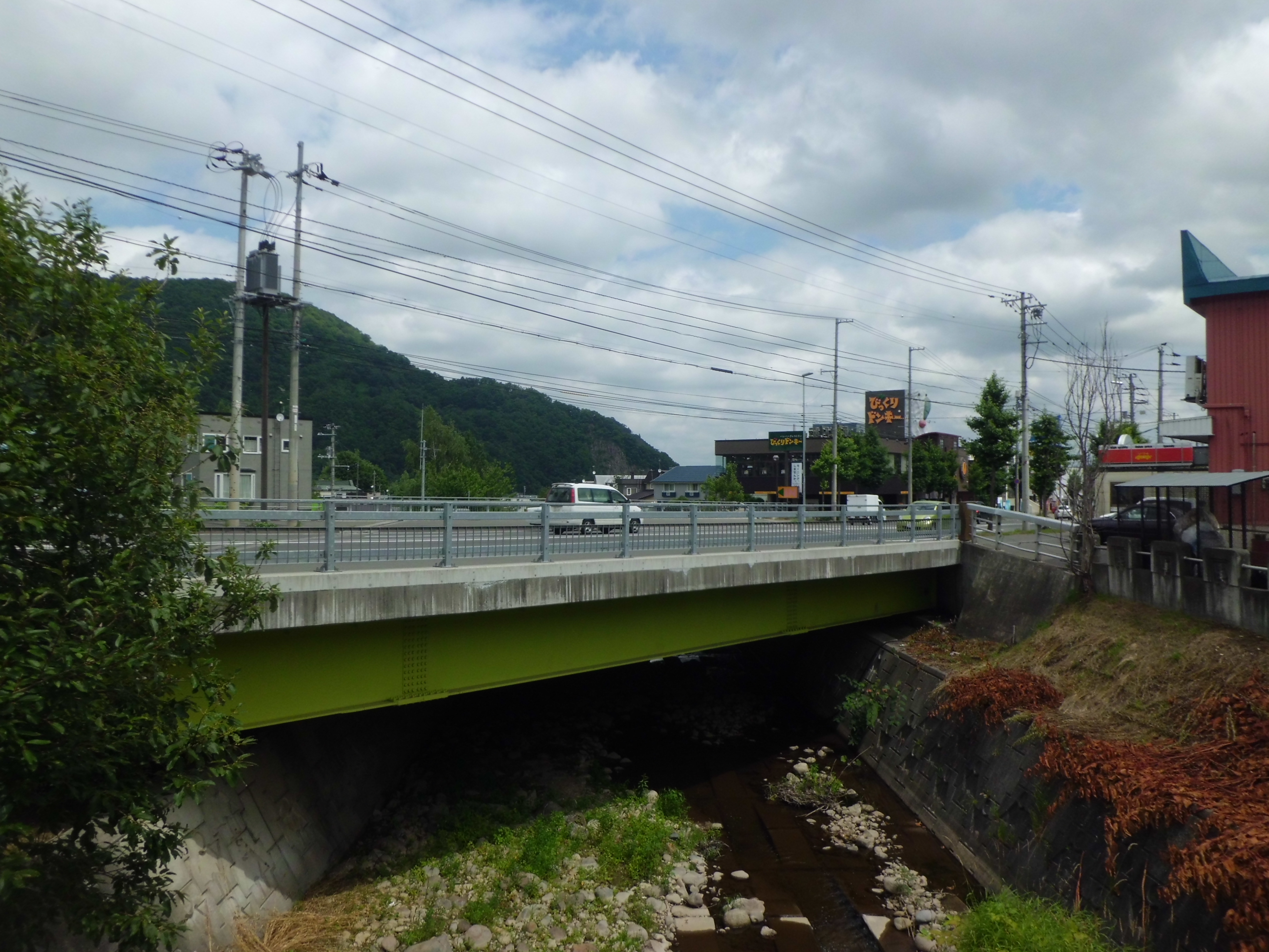 Marujugo Bridge on Okabarushi River.